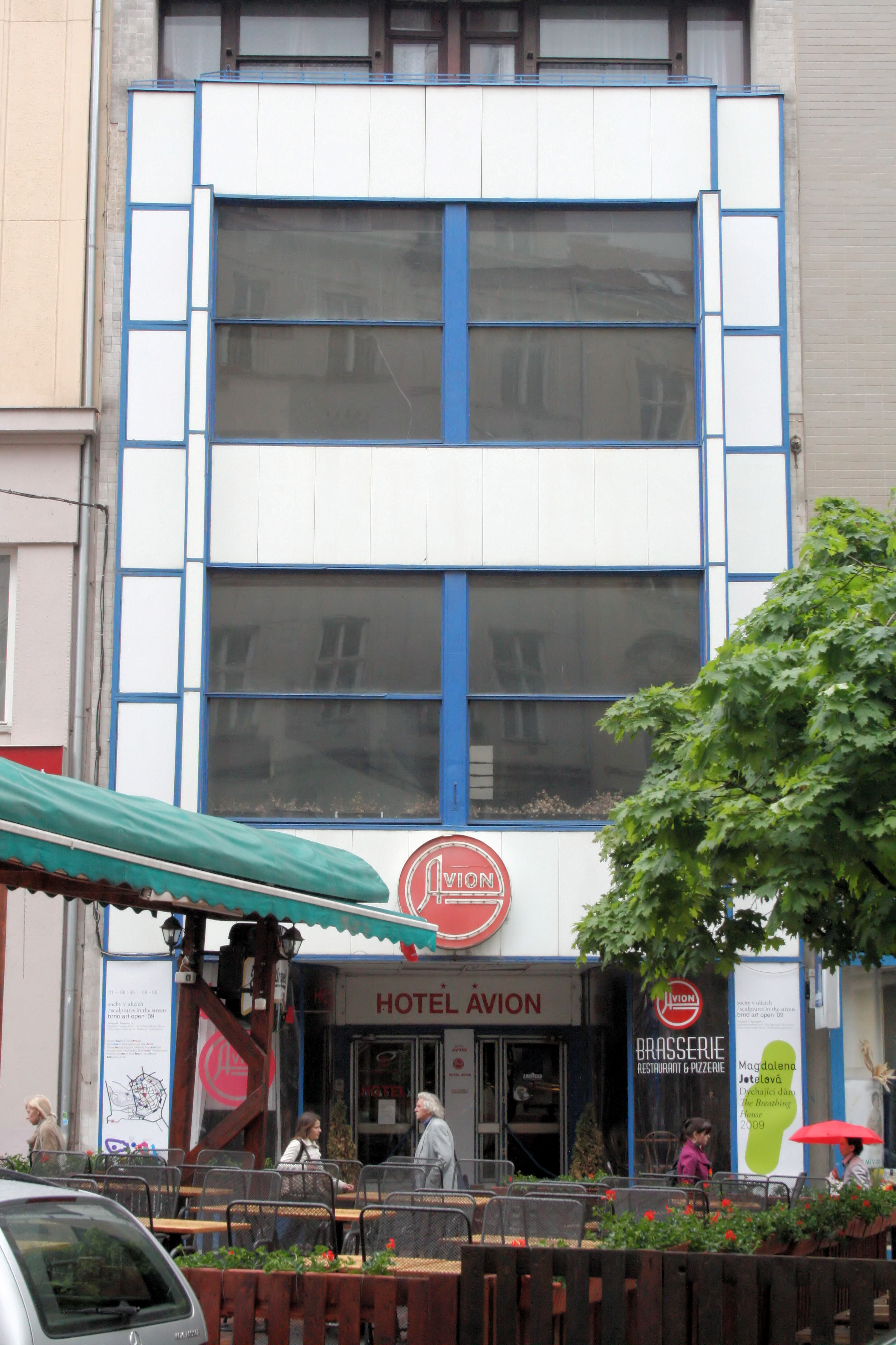 Avion Hotel in Brno, Česká street.